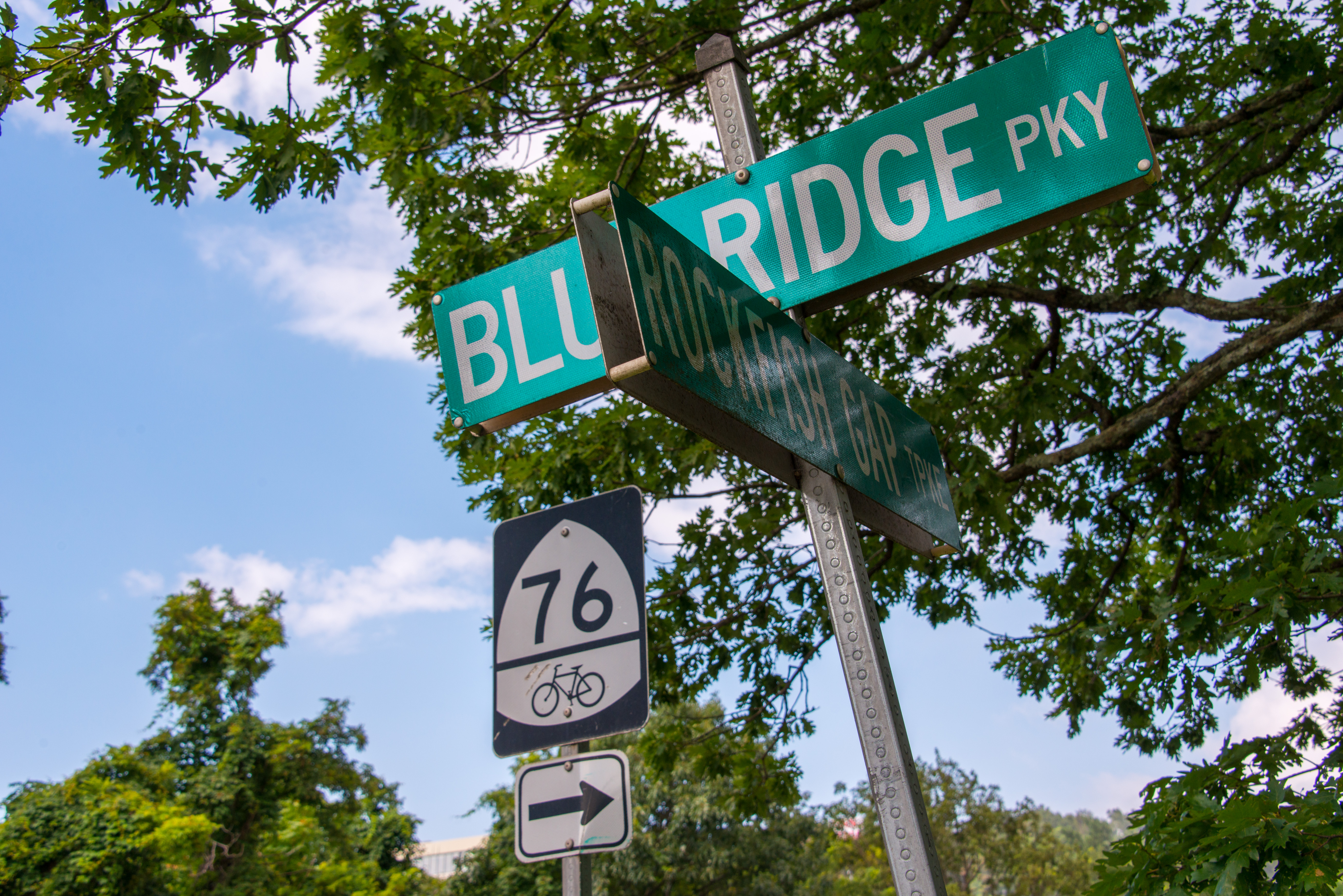 USBR 76 at the intersection of Blue Ridge Parkway and Rockfish Gap Turnpike, located in Nelson County, Virginia.